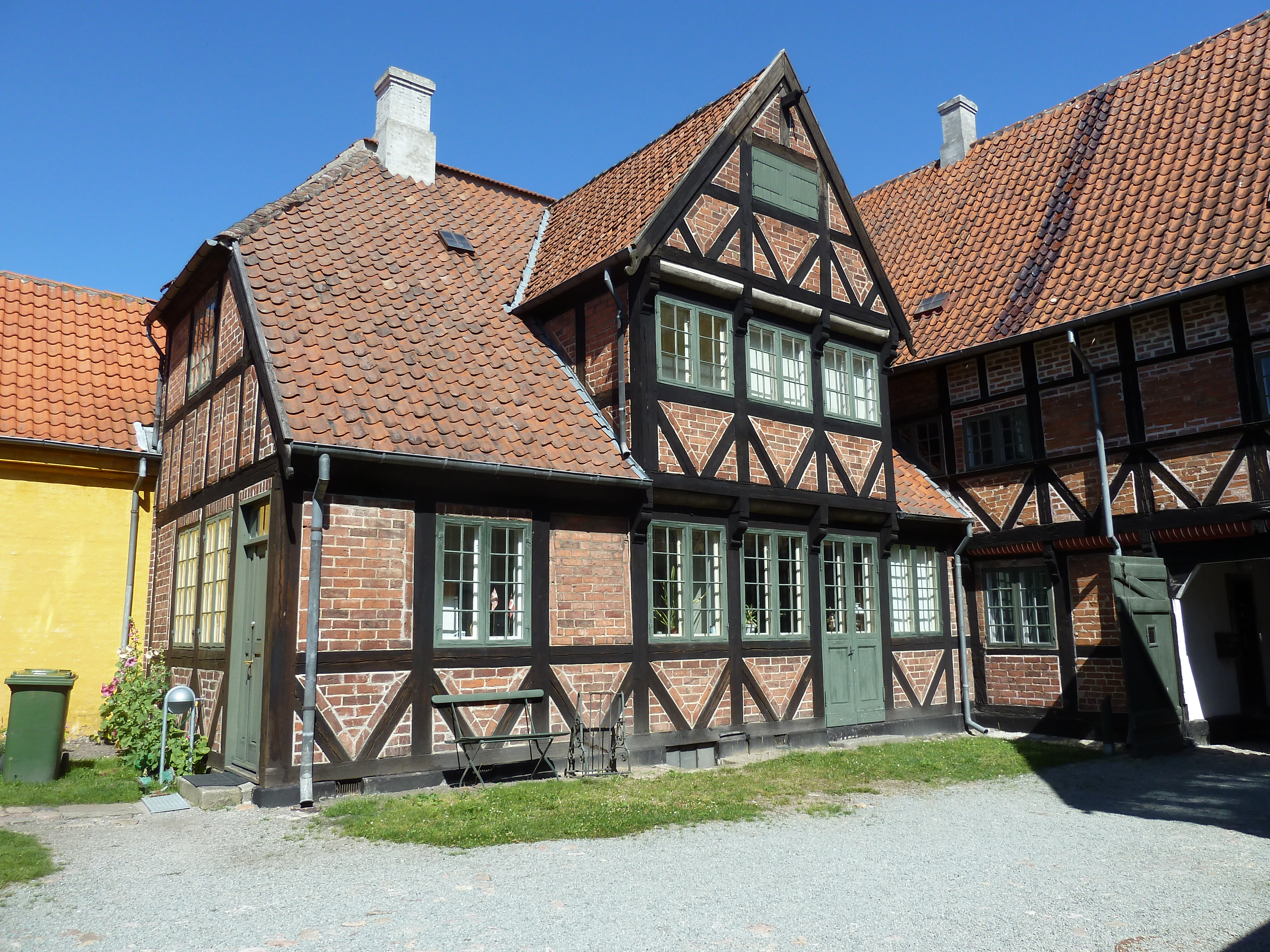 One of the two 1899-1900 extensions of the old inn in Sorø, Denmark, now home to Sorø Museum